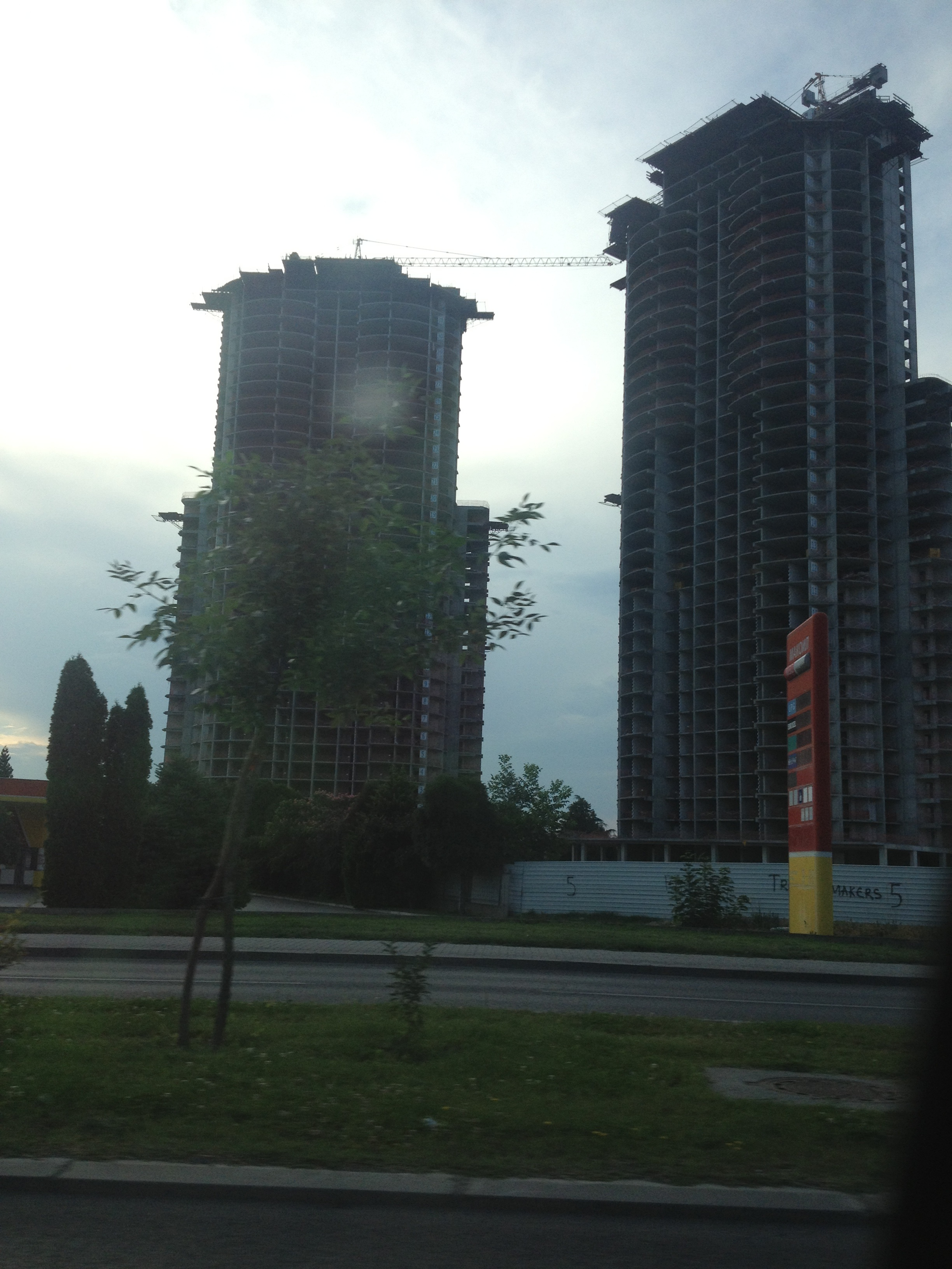 The under-construction Cevahir Towers in Skopje